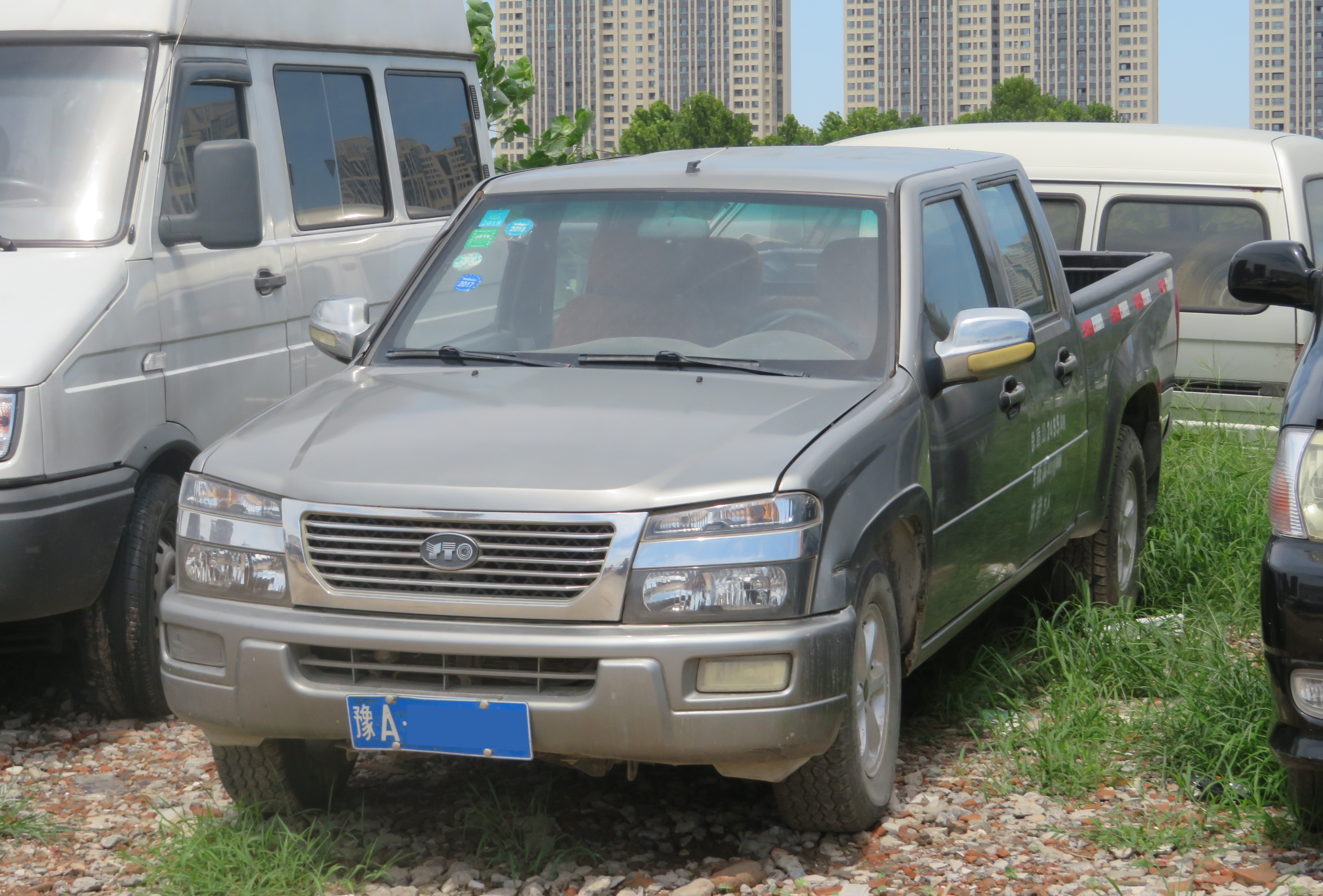 Photographed in Zhengzhou, Henan province, China